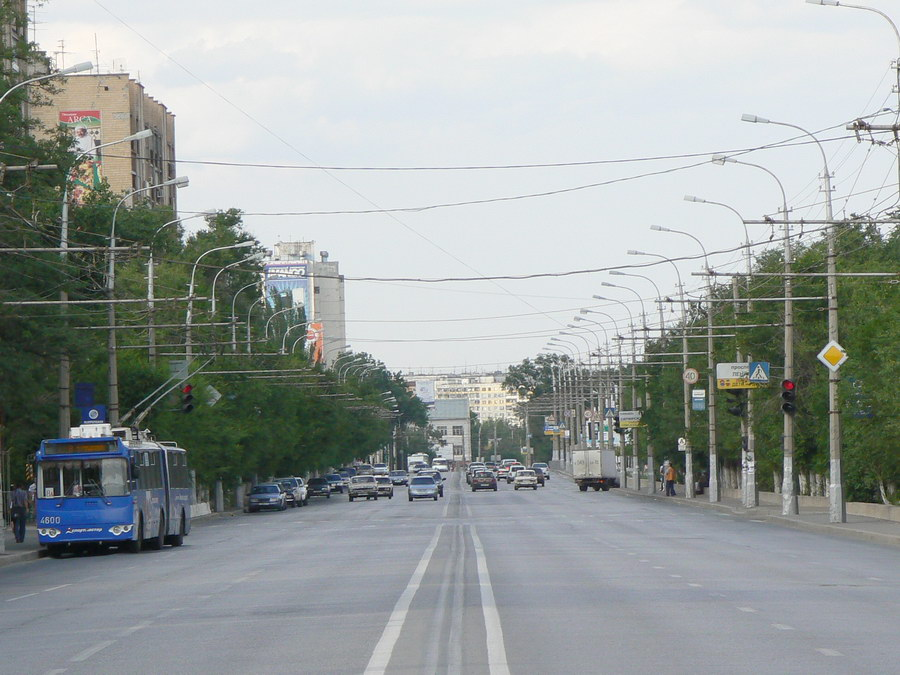 1st arterial road of Volgograd in Traktorozavodskiy district